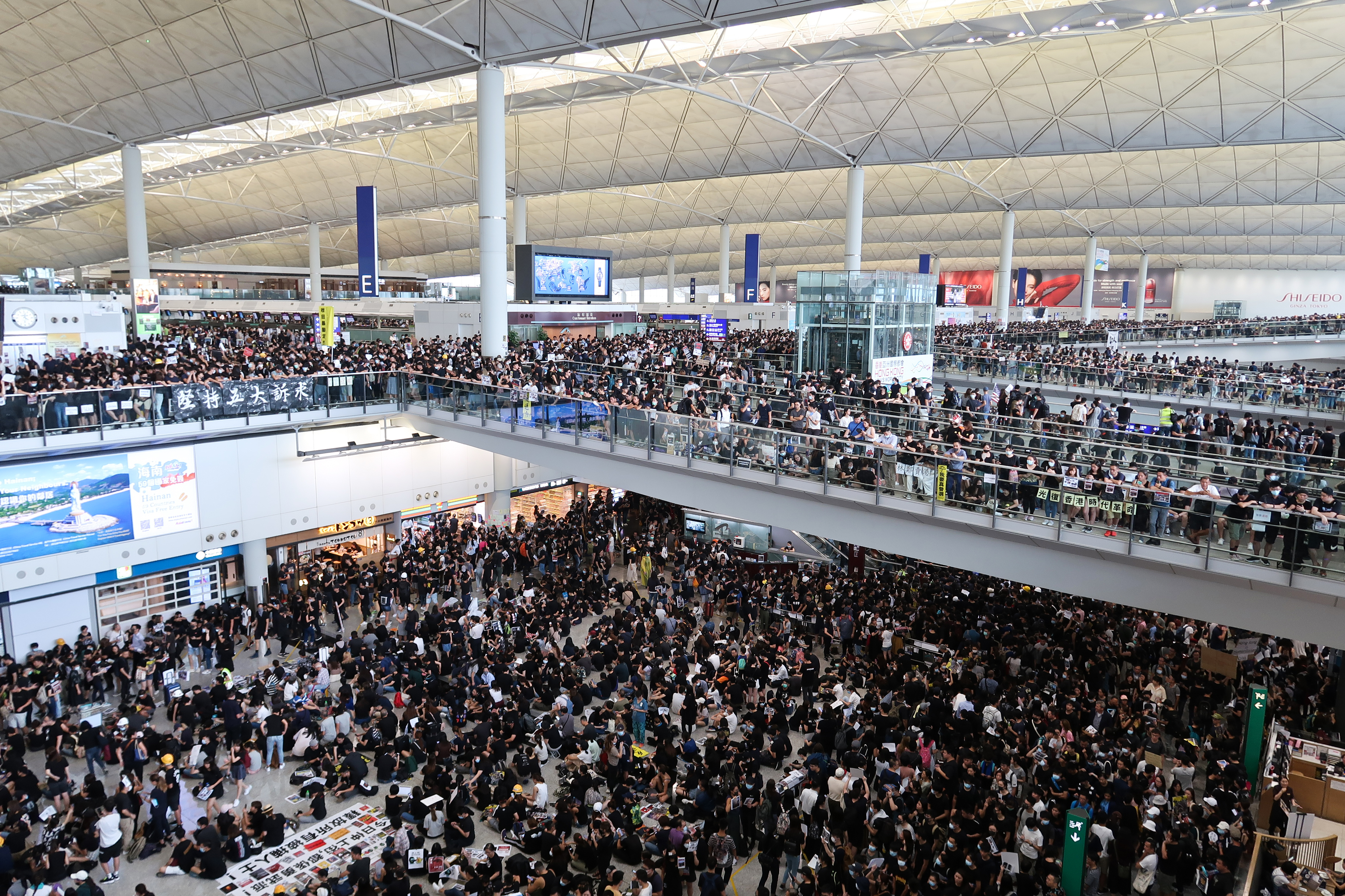 Demonstration against extradition bill in Hong Kong International Airport Terminal 1